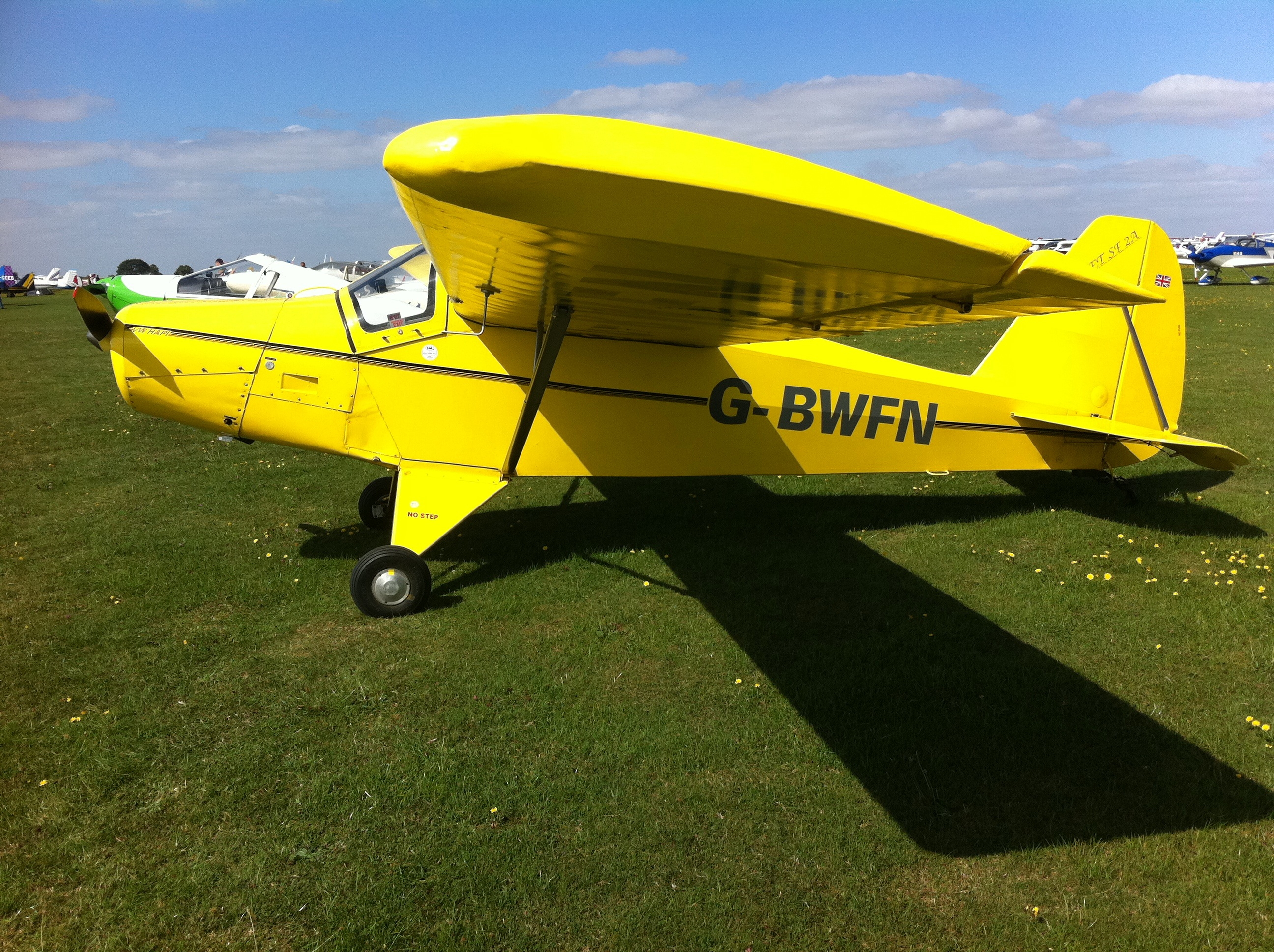 At Sywell Airfield